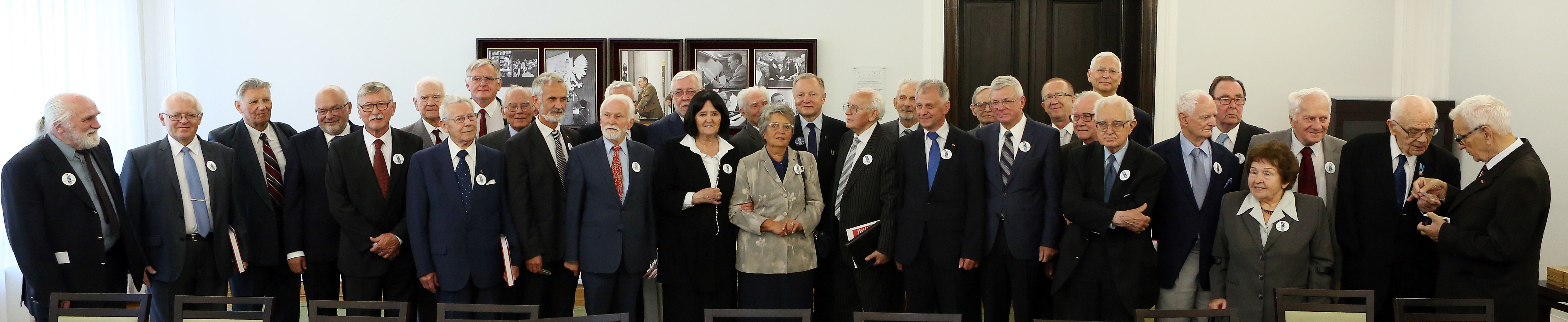 Senators of the 1st term in the Polish Senate